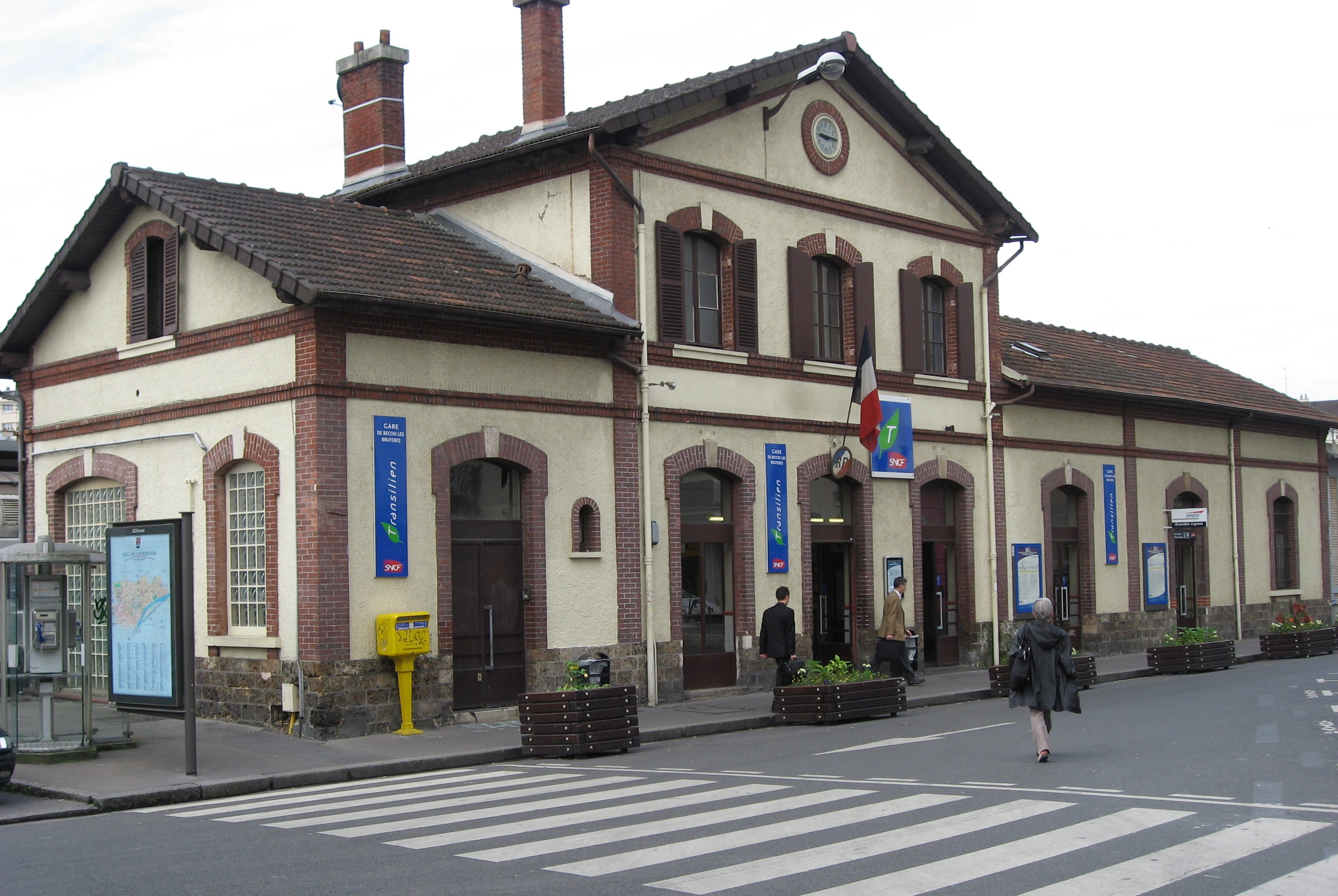 North entry of Gare de Bécon-les-Bruyères